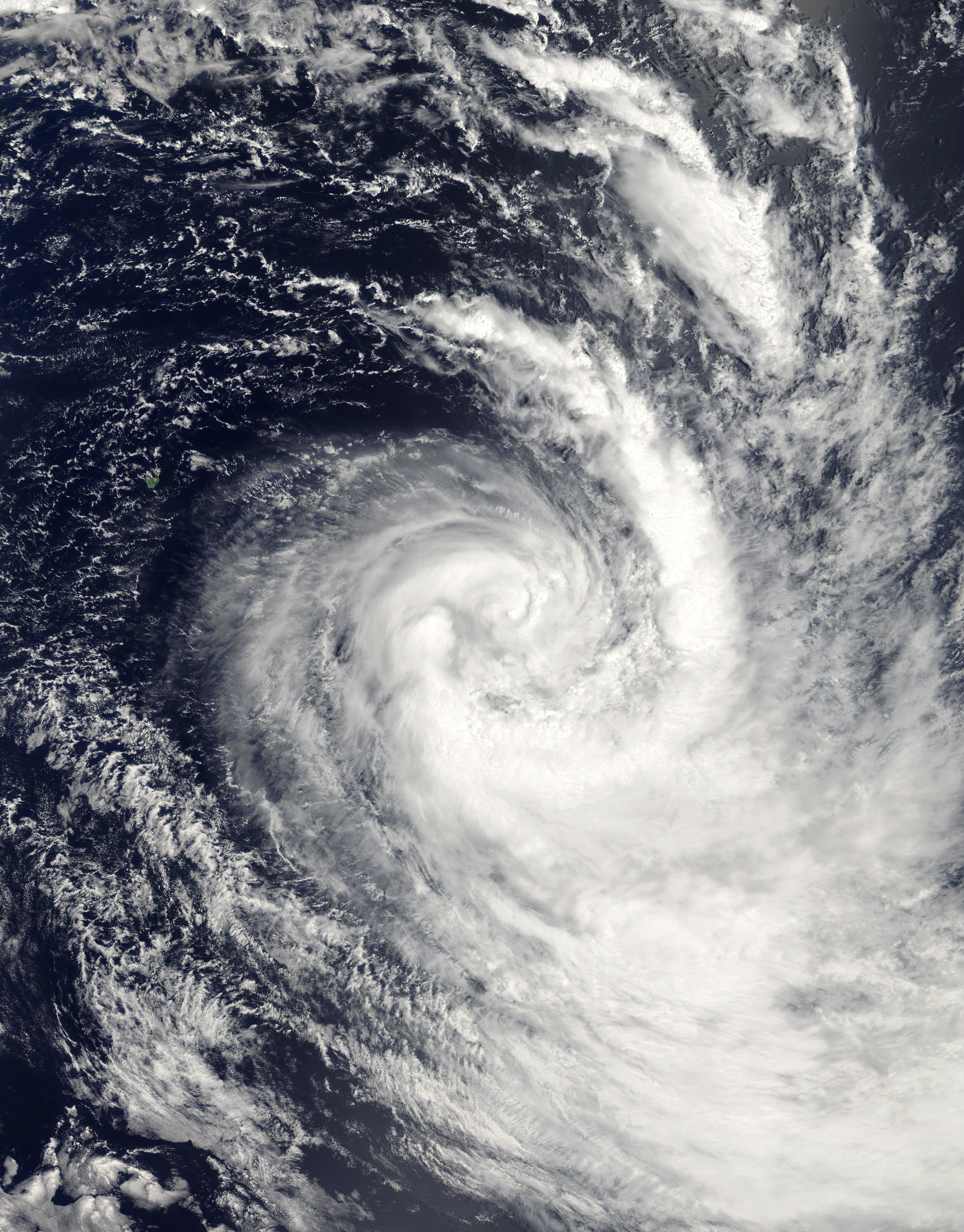 Severe Tropical Storm Dongo as seen from Terra Satellite on 2009-01-11